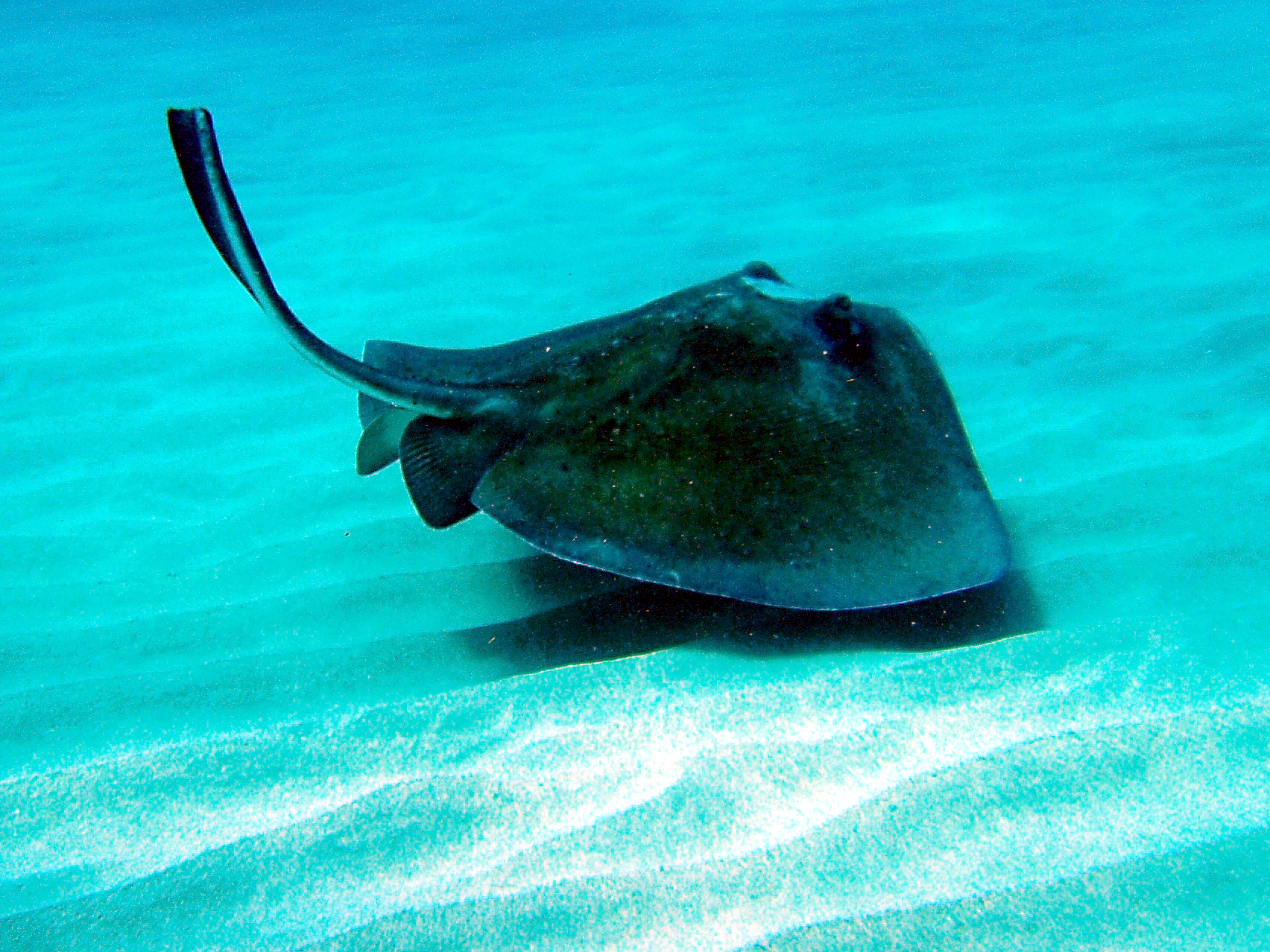 Southern Stingray (Dasyatis americana) Image ID: reef1093, NOAA's Coral Kingdom Collection Location: Coki Beach, St. Thomas, USVI